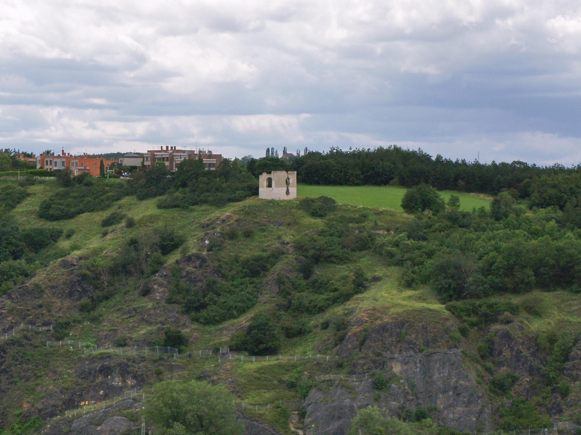 “Baba” ruins in Prague